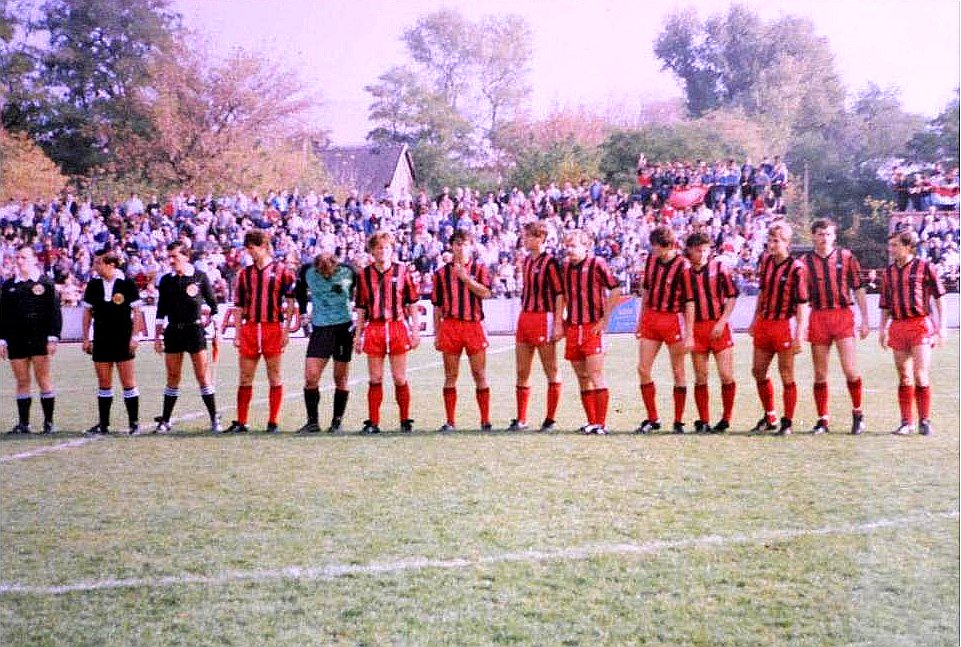 One of the biggest interesting for a 3rd class match in Hungary